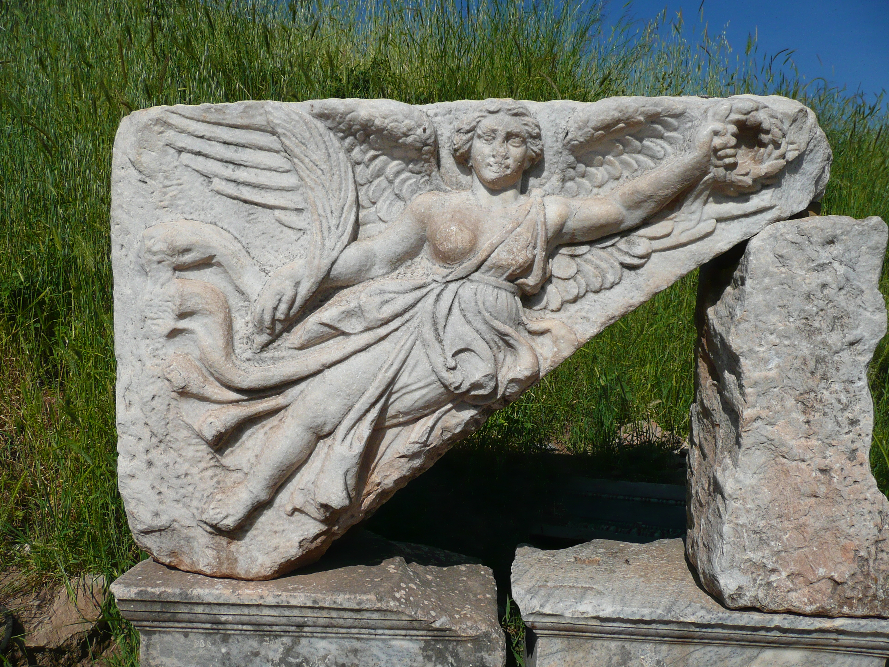 A stone carving of the Goddess Nike at the ruins of the ancient Greek city of Ephesus, Turkey